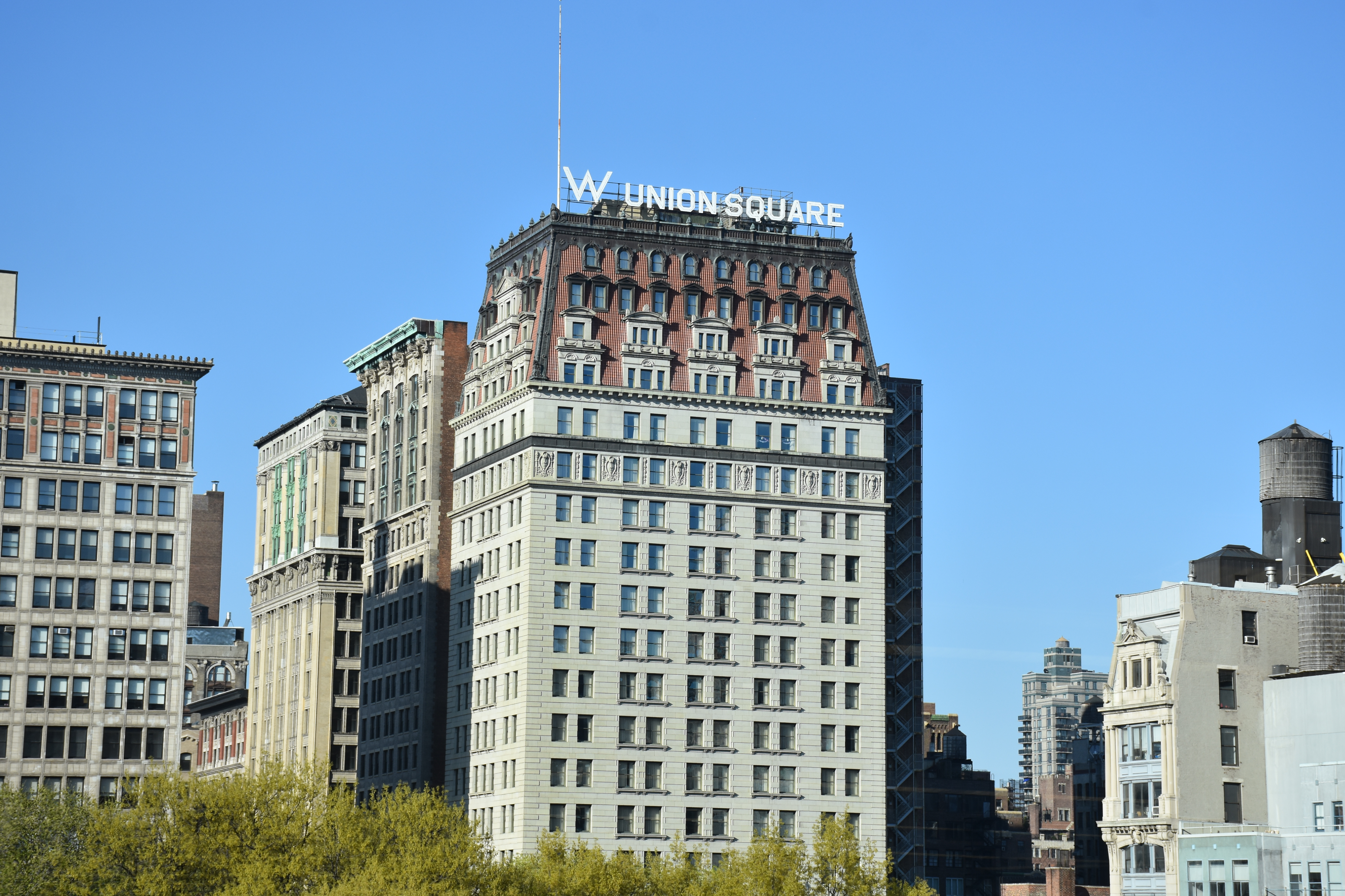 The W Hotel in Union Square, New York City